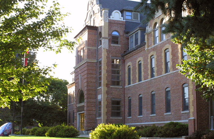 Humphrey Center, Grand View College. It's my image and am releasing it under Creative Commons.